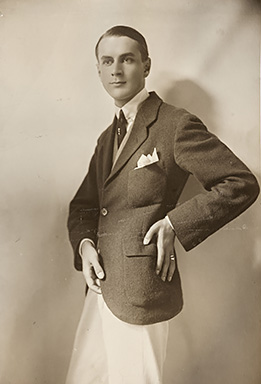 Nils Dardel in Tokyo 1917